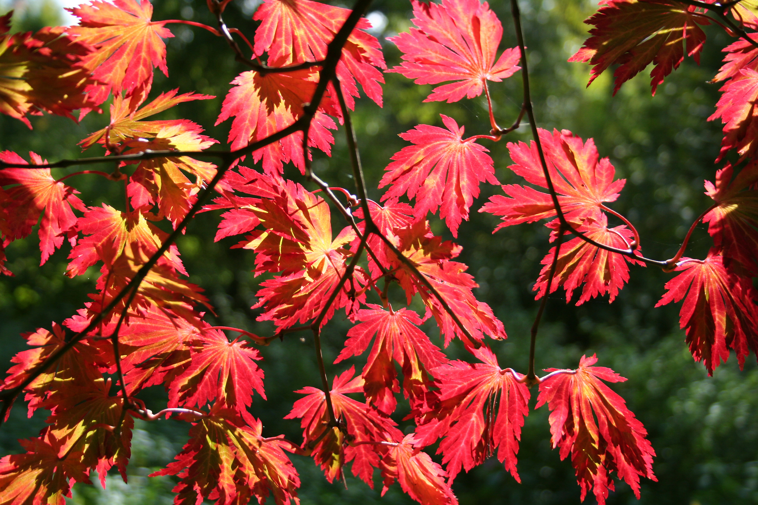 Acer japonicum , Downy Japanese Maple or Fullmoon Maple sub. ‘Aconitifolium’ leaves in the autumn Planting date : 1963 Precise location : (S44D – 436) Arboretum Robert Lenoir - Rendeux (Belgium). Année de plantation : 1963 Position exacte : (S44D – 436) Arboretum Robert Lenoir - Rendeux (Belgique). Walon: Fouyes dol plane japonaise var. fouye d’aconit - (Acer japonicum) var. Aconitifolium è l’ârière saîson Annéye do plantis' : 1963 Place rècta : (S44D – 436) Arboretum Robert Lenoir – Rindeu (Bèljike).